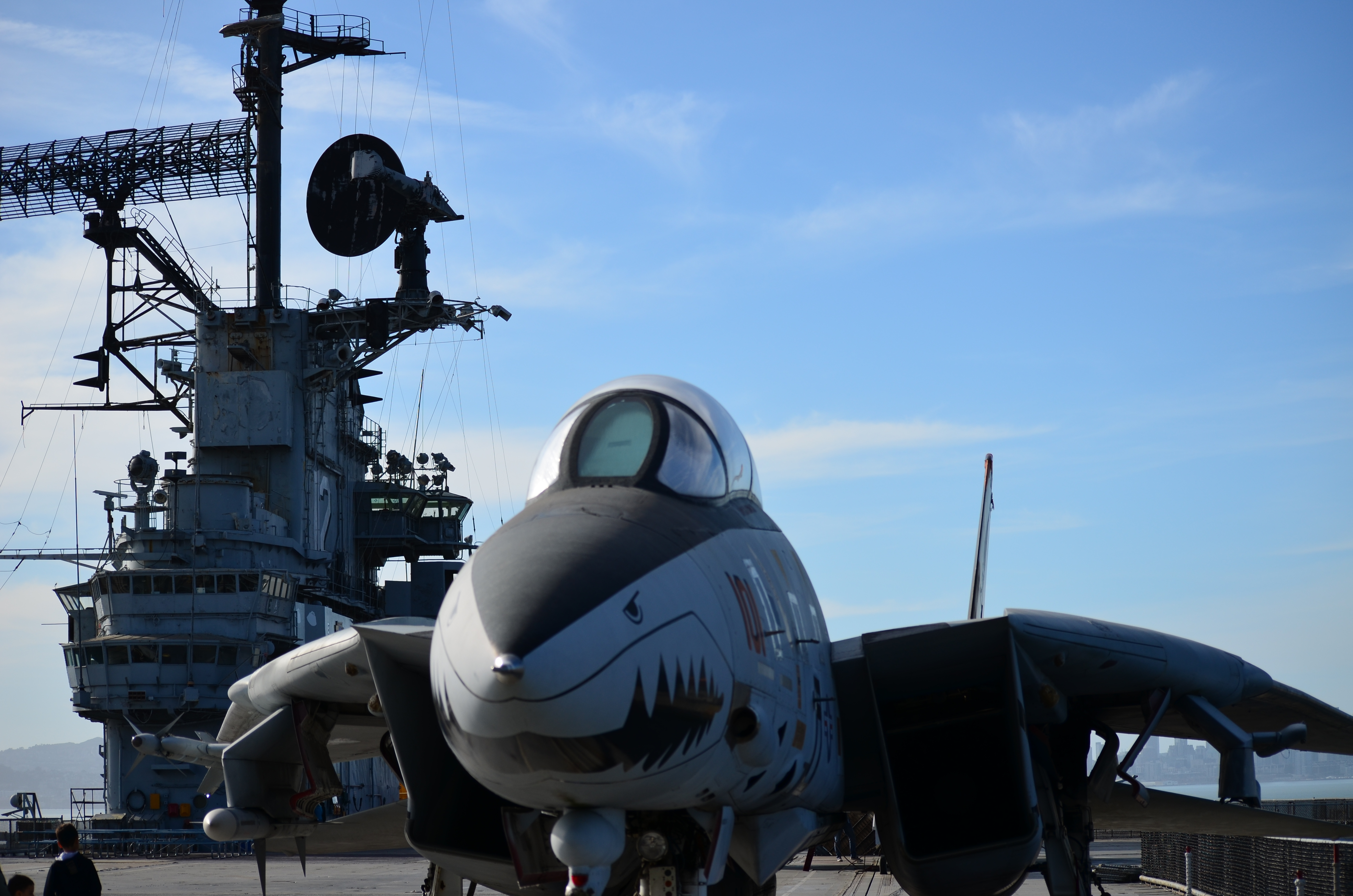 Museum ship aircraft